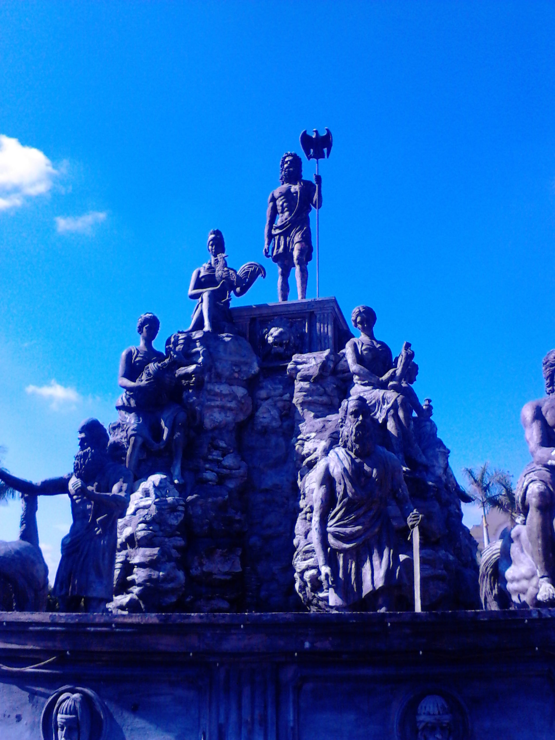 Fountain at Xevera, Mabalacat City, Pampanga, Philippines